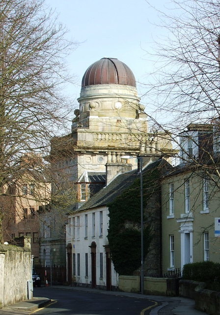 Coats Observatory On Oakshaw Hill, funded by Thomas Coats of the Paisley threadmaking firm. Further information is available here